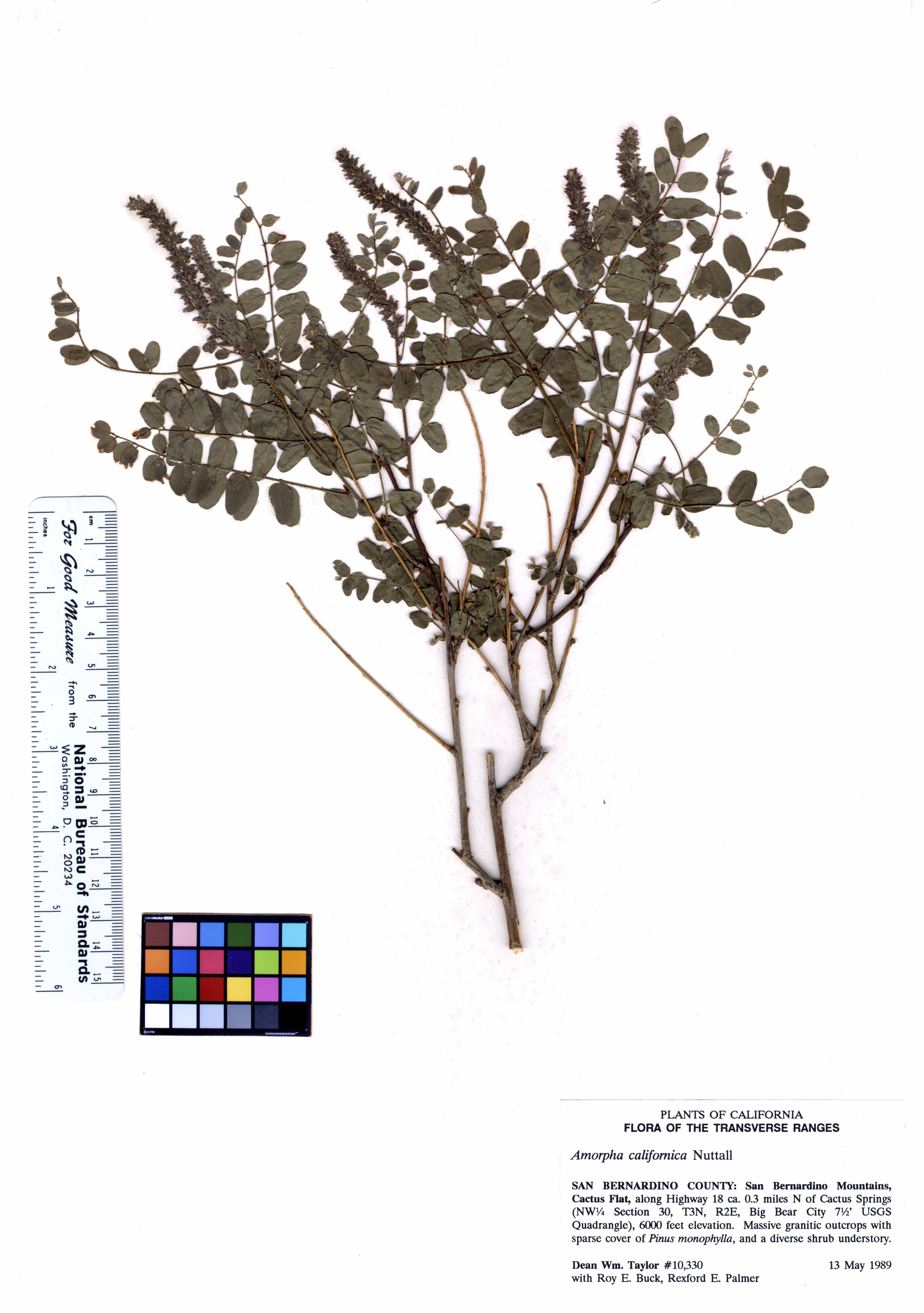 Amorpha californica var. californica